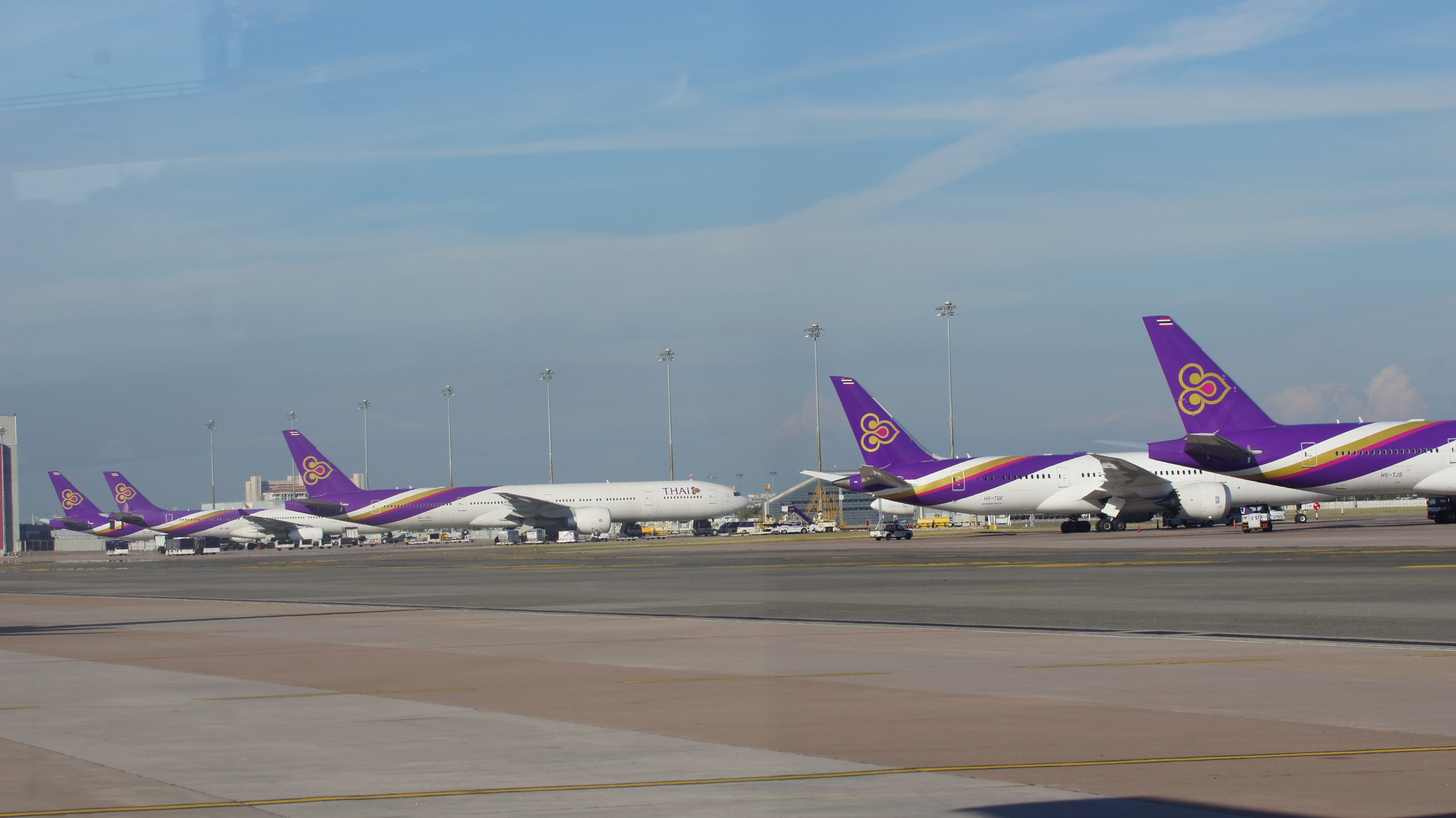 Several Thai Airways' aircrafts line up at Bangkok Suvarnabhumi Airport in 2016